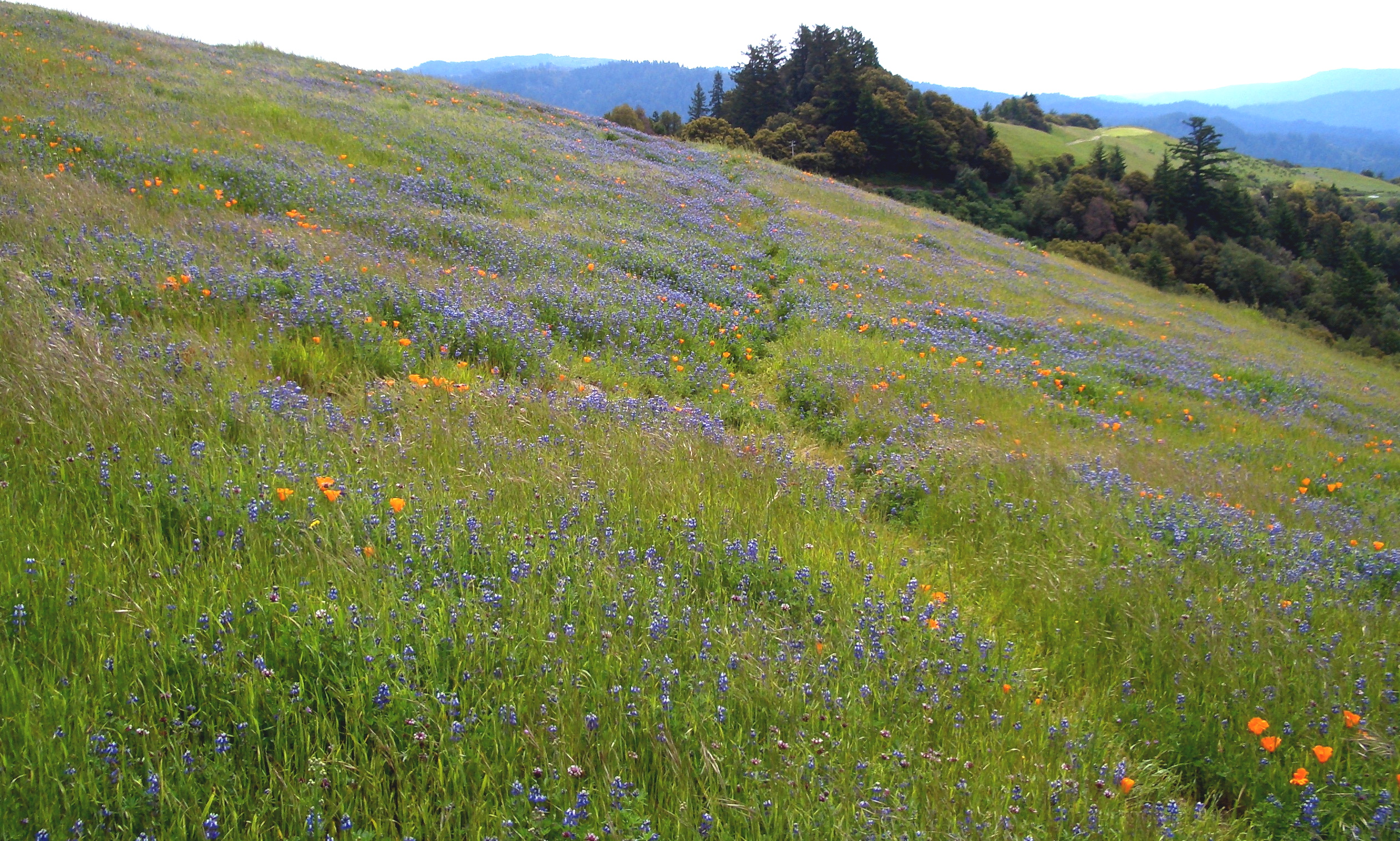 "Today's Ride. Wildflowers popping everywhere" – A flowering meadow in Russian Ridge Open Space Preserve (part of the Midpeninsula Regional Open Space District system), Santa Cruz Mountains above Silicon Valley, northern California, USA.